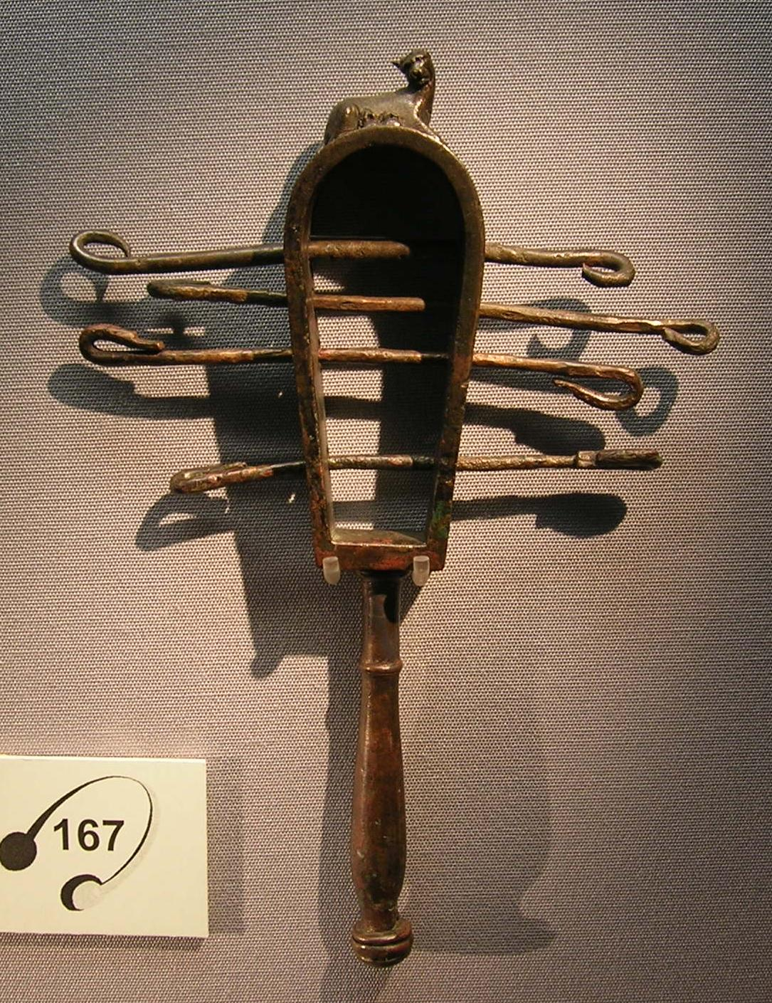 A sekhem-type sistrum (ancient Egyptian instrument)